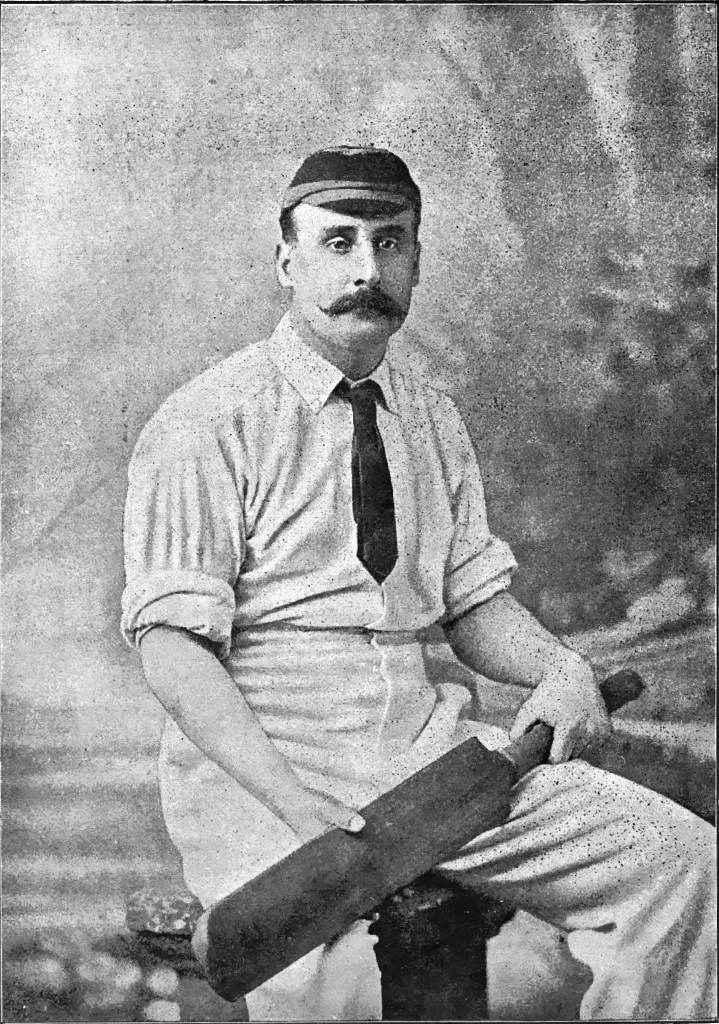 Lord Hawke